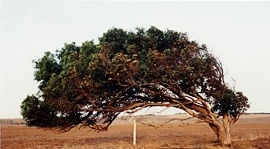 Eucalyptus camaldulensis 'Greenough' (Leaning Tree @Greenough, WA, Australia)